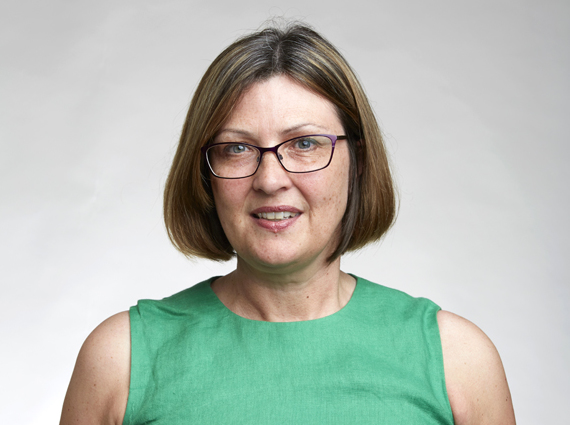 Tracy Palmer is a Professor of Microbiology in the Centre for Bacterial Cell Biology at Newcastle University in Tyne & Wear, England. She is known for her work on the twin-arginine translocation (Tat) pathway Attribution: The Royal Society